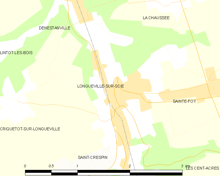 Map of French municipality Longueville-sur-Scie